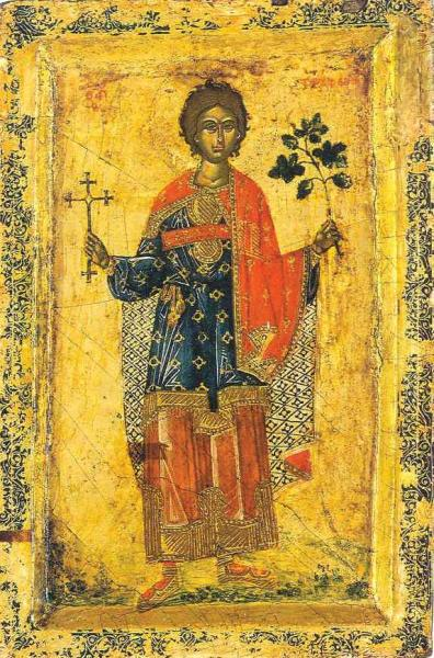 Saint Tryphon of Campsada (Orthodox icon)